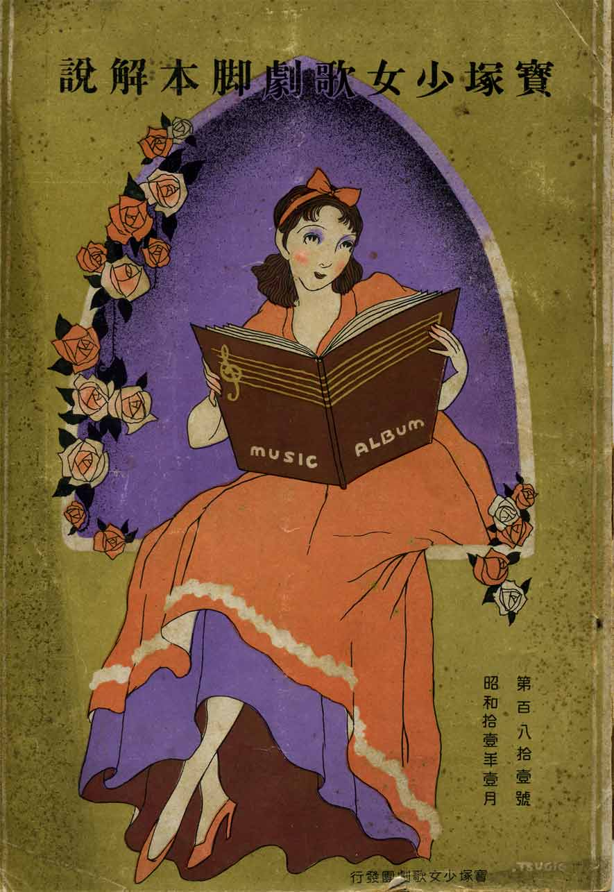 Cover of the Takarazuka Girls' Revue Plot Summary, vol. 181